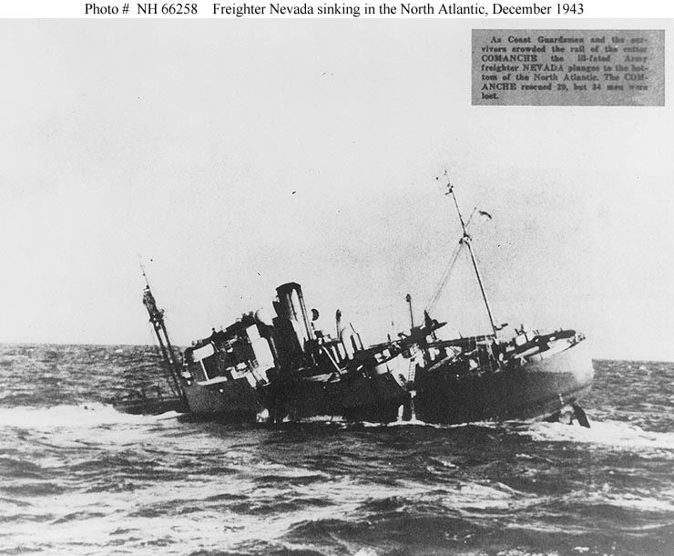 The commercial cargo ship SS Nevada sinking in a storm in the North Atlantic Ocean off South Carolina, photographed from the United States Coast Guard Cutter USCGC Comanche (WPG-76). Nevada had served as the United States Navy icebreaker in 1918-1919.